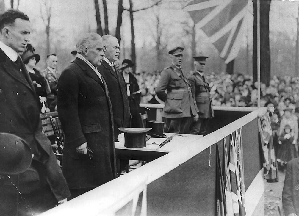 Sir Robert Borden, Canadian Prime Minister, opens Victory Bond campaign in Toronto. Mayor Thomas Langton Church is at extreme left.